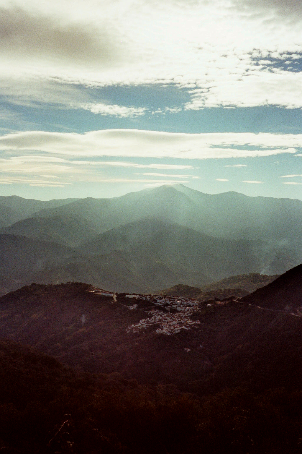 Benarrabá, Prov. Malaga, Spain. (In the background to the left, mountains of Los Reales de Sierra Bermeja).